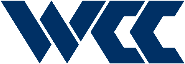 West Coast Conference in BYU Cougars colors.